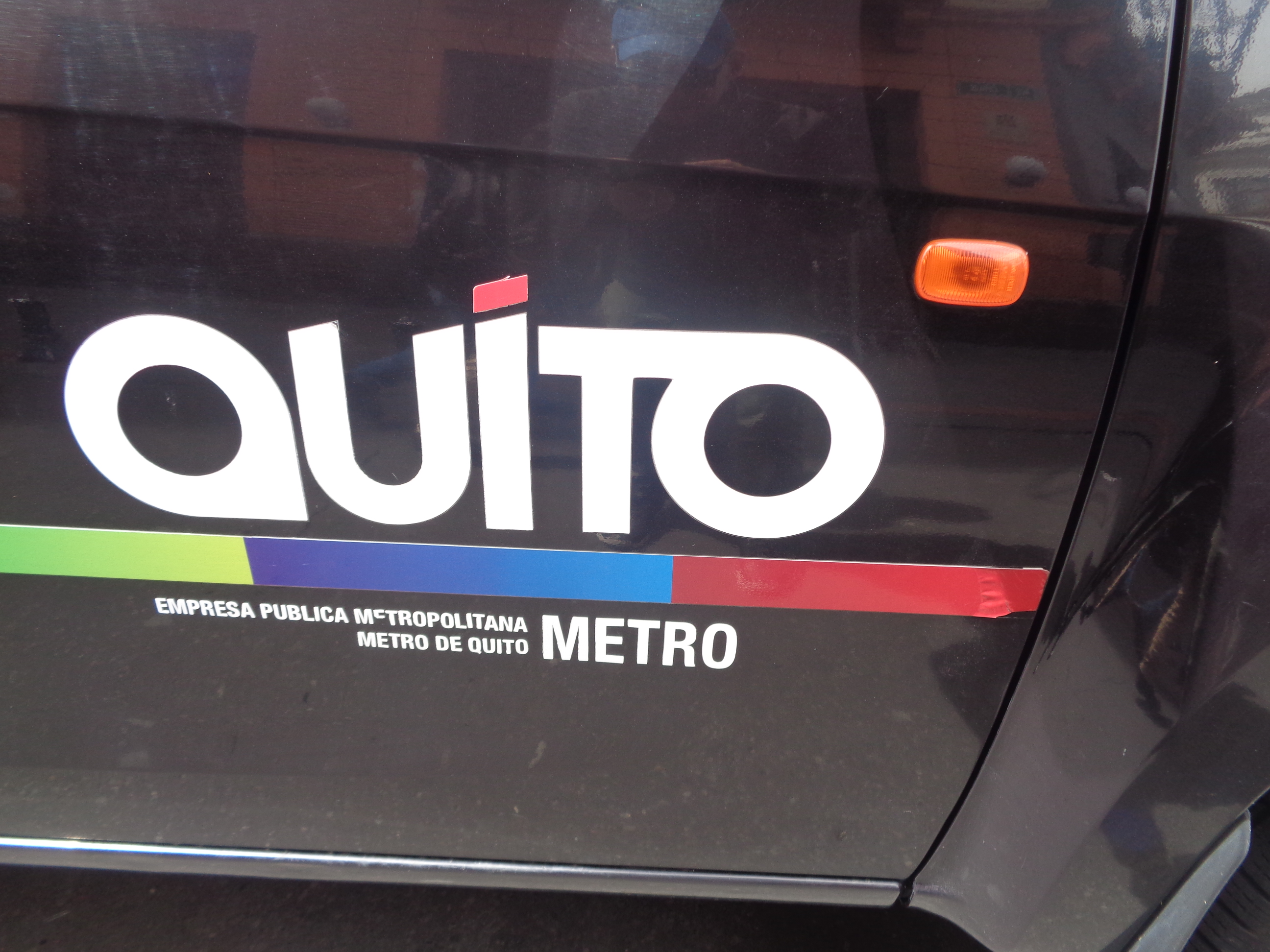 (Metro de Quito) side of work truck. (El Centro Histórico, Quito) Historic Center of Quito UNESCO World Cultural Heritage Site Centro Histórico, Quito Photography by David Adam Kess